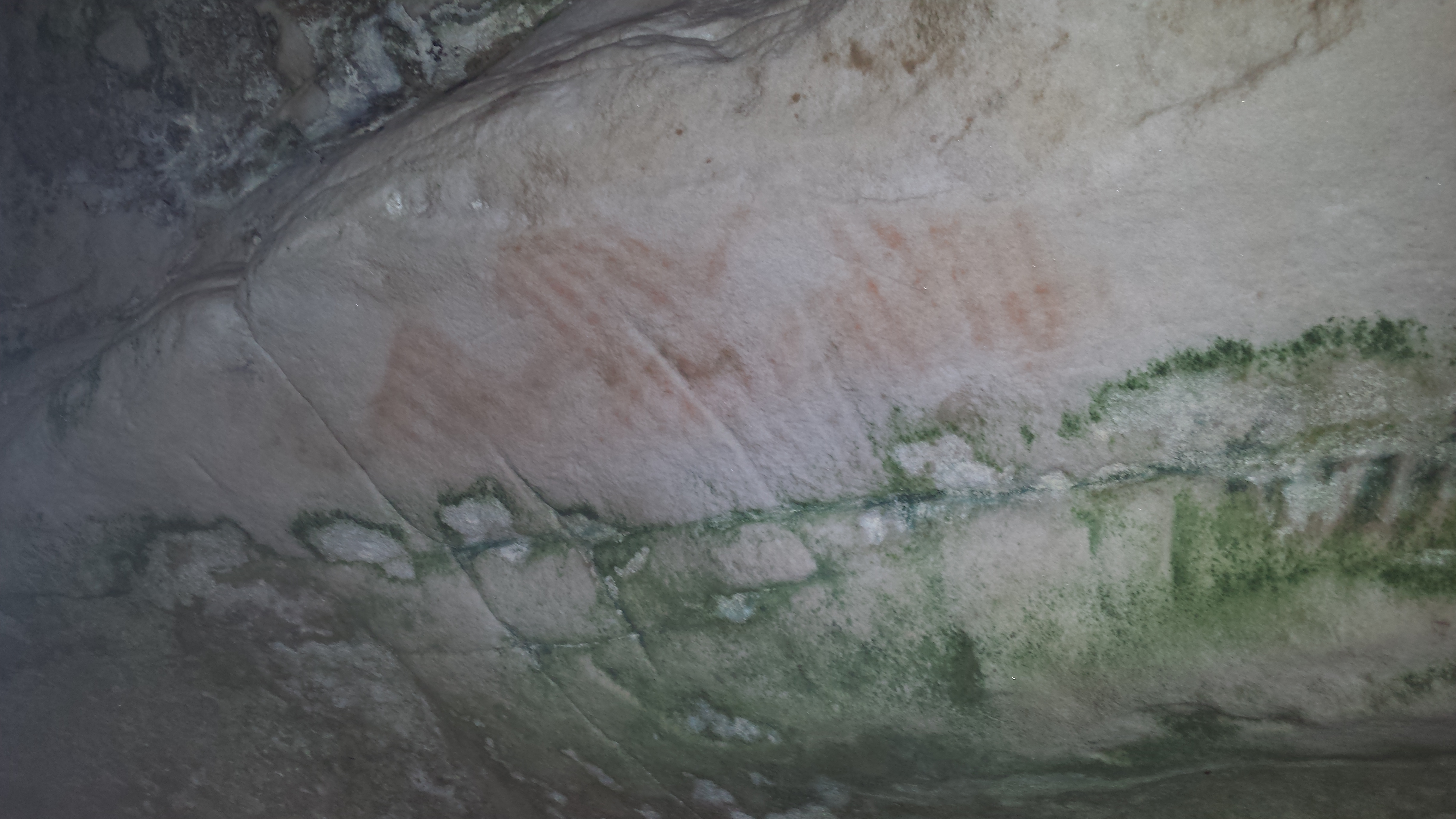 Rock painting in the cave "Grotte de la peinture" in Larchant France